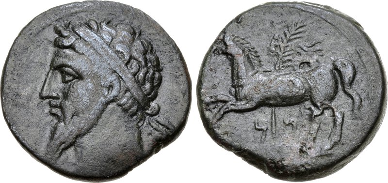 KINGS of NUMIDIA. Massinissa or Micipsa. 203-148 BC or 148-118 BC. Æ Half Unit (22mm, 7.10 g, 12h). Siga mint. Diademed head left Horse rearing left; filleted palm frond in background; Punic MN below. MAA 23; Mazard 60; SNG Copenhagen 499-501.